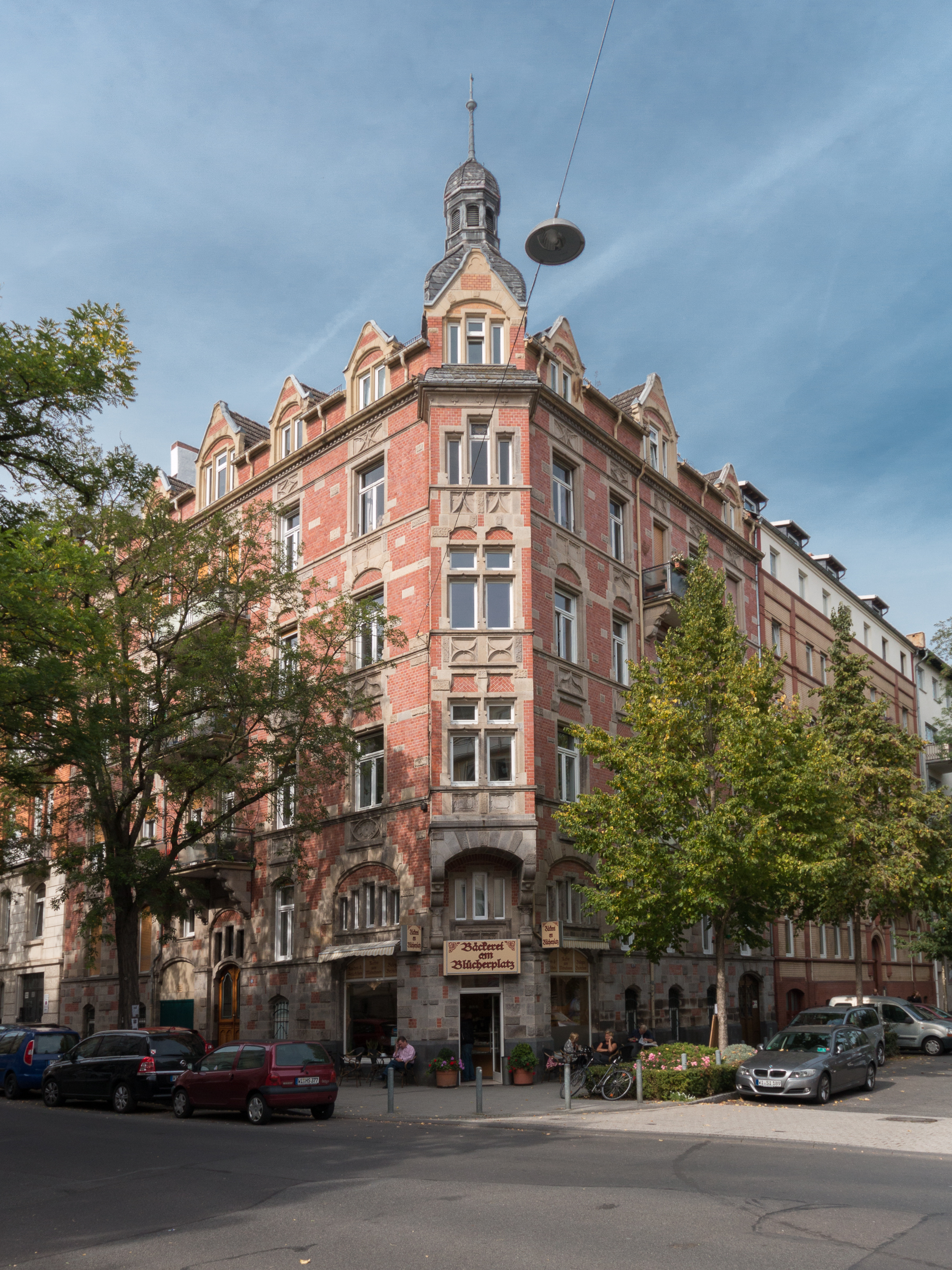 The building Blücherstraße 13 / Scharnhorststraße in Wiesbaden